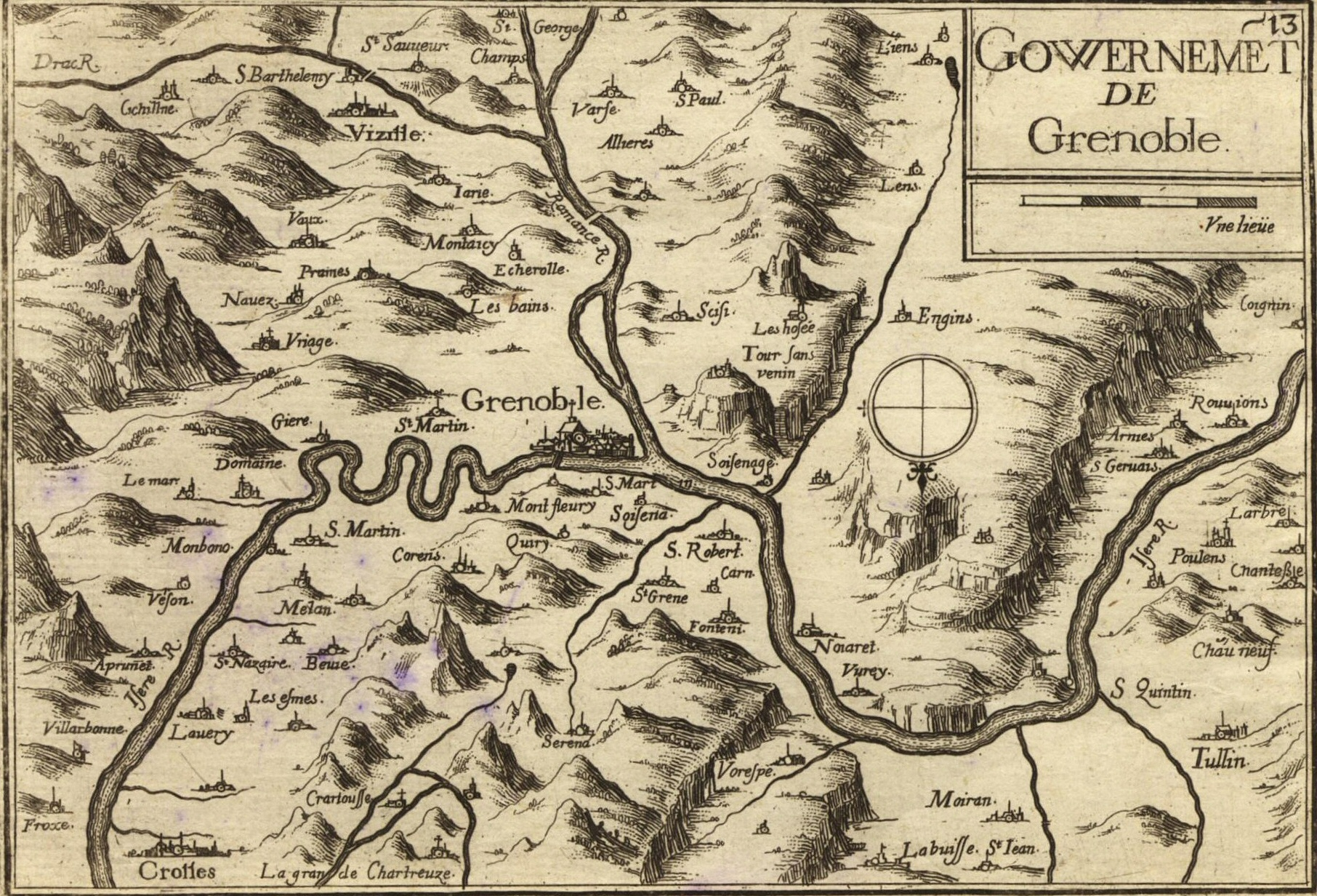 Old map of Grenoble area (Dauphiné - Isère - France) by Tassin circa 1638. Of interest is the unconventional South-North orientation of this map as well as the different toponomy. For example, Meylan is shown as "Mélan" on the map. Note that the rivers Drac and Romanche are inverted